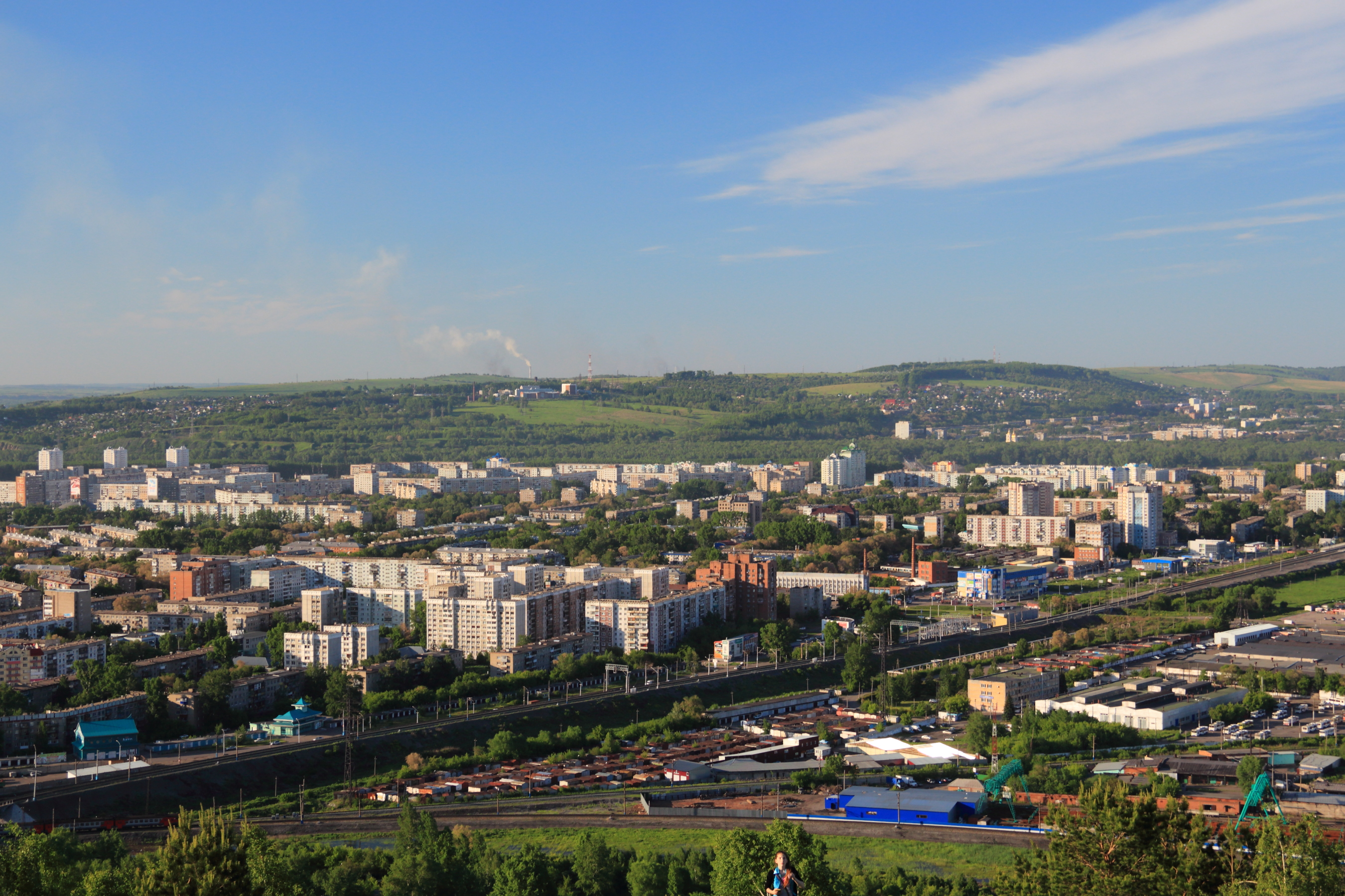 Panoramic view to Novokuznetsk from Sokoluha mount